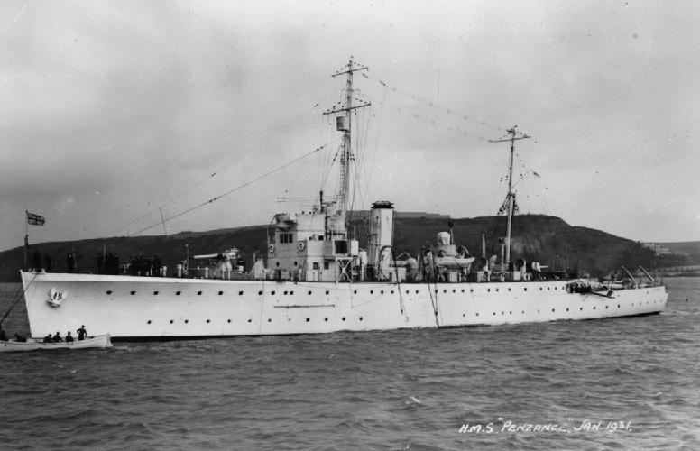 Photograph of British Hastings class sloop HMS Penzance.